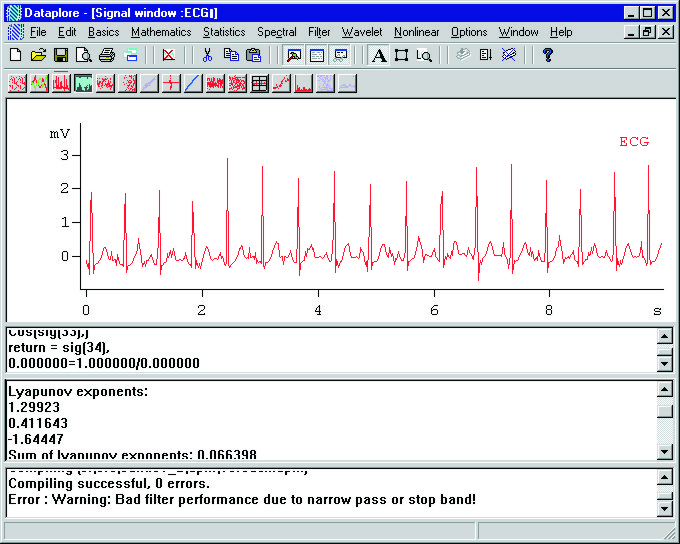 Dataplore, Signal Window ECG